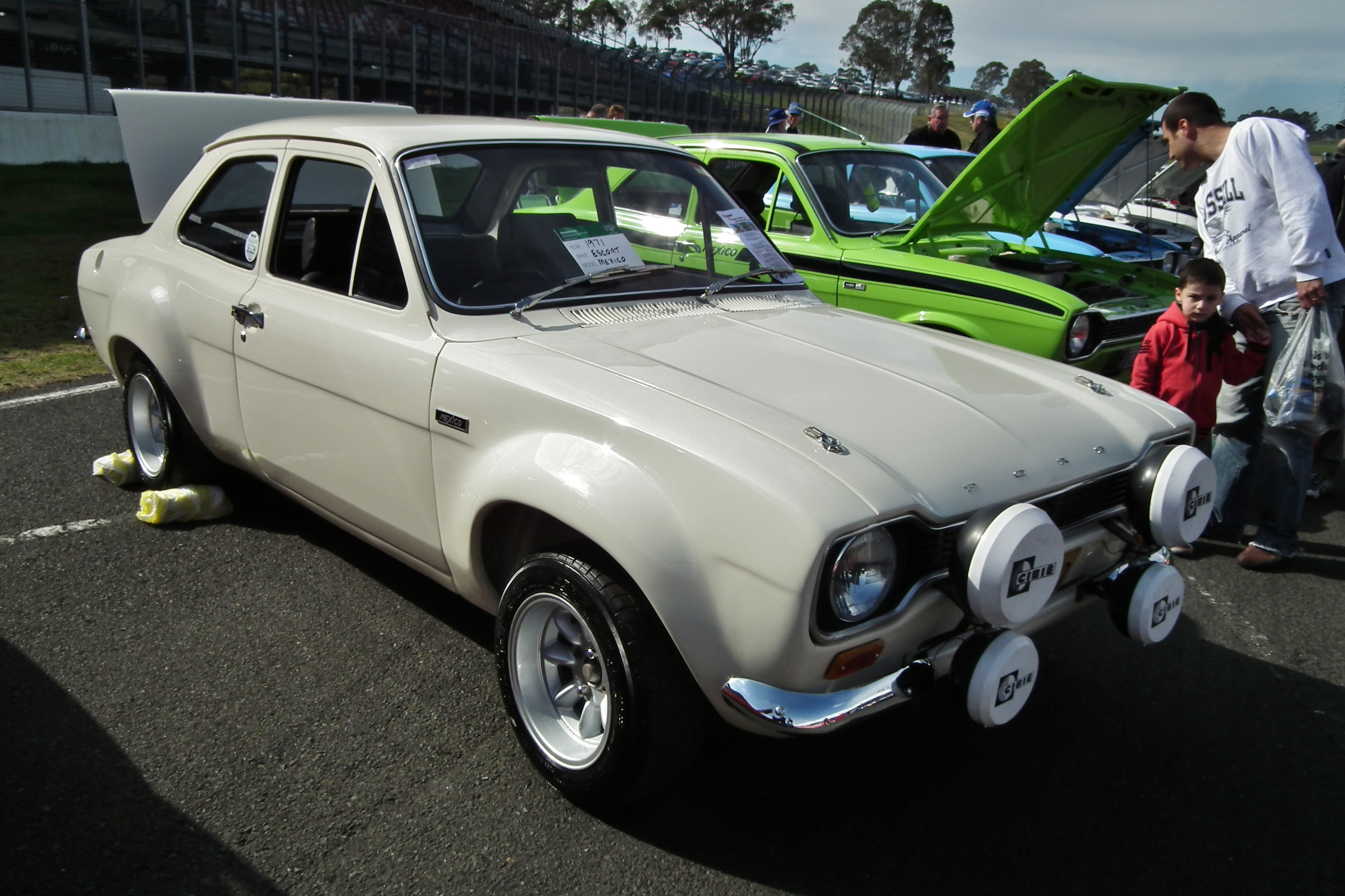 1971 Ford Escort Mk I Mexico sedan. Taken at the 2011 New South Wales All Ford Day, held at Eastern Creek Raceway.